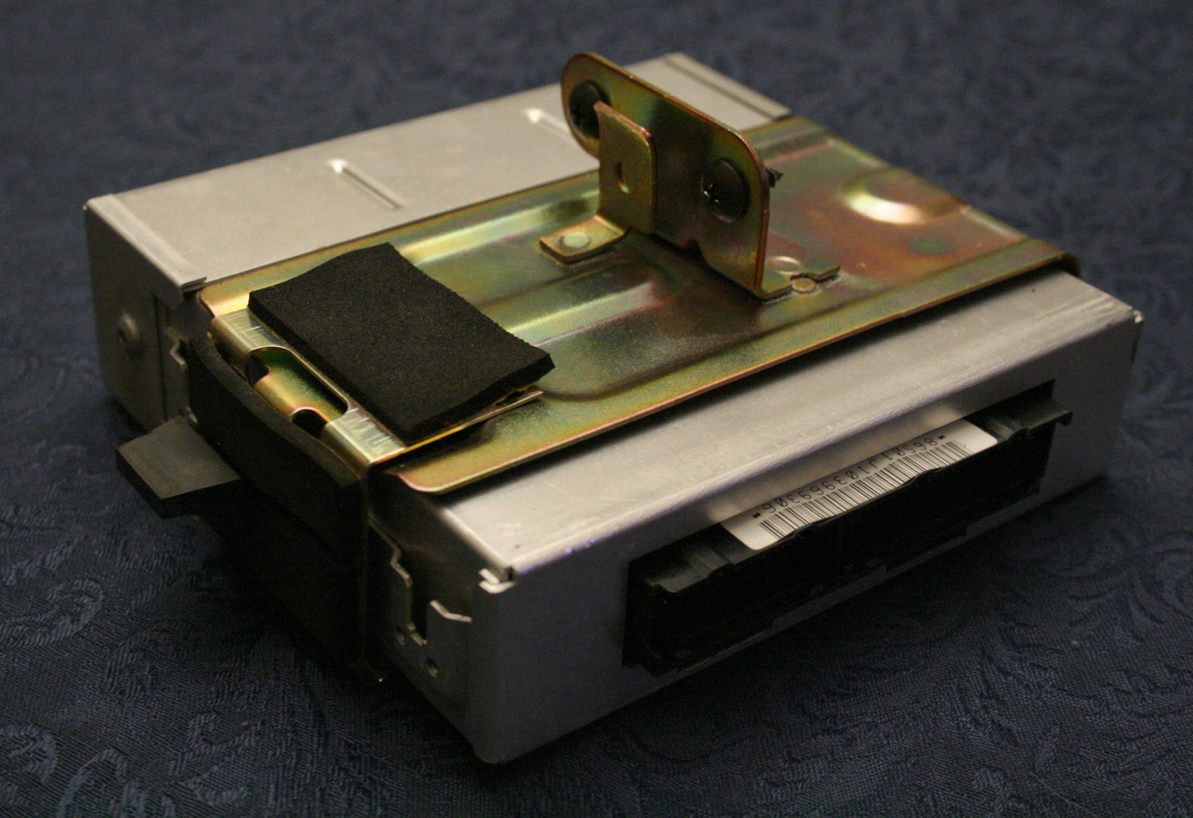 An electronic control unit (ECU) from a 1990 Geo Storm GSi.